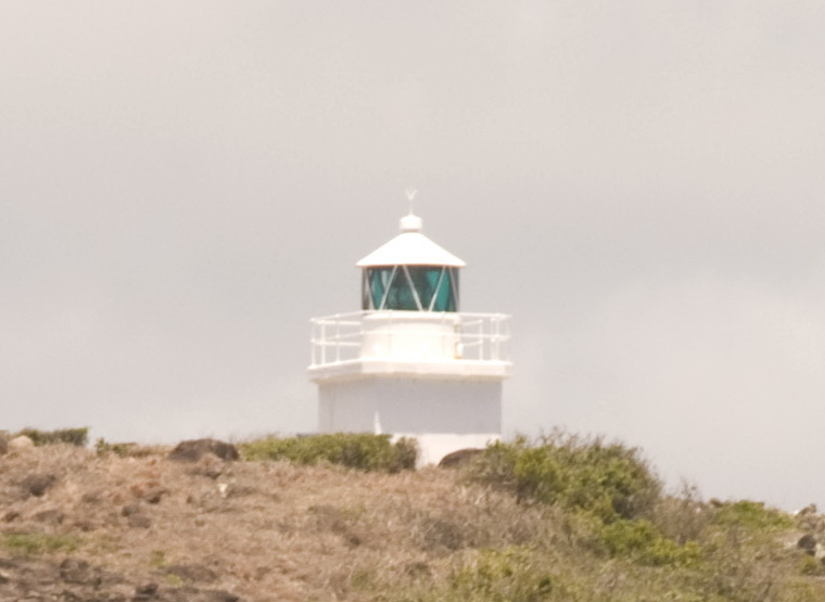 Eborac Island is 500 metres North of the tip of Cape York, If you are going to sail around the tip of Cape York, you must sail around Eborac and York Islands. Therefore this light. whilst on an island, marks the northern most part of mainland Australia. S10 40.929 E142 32.012